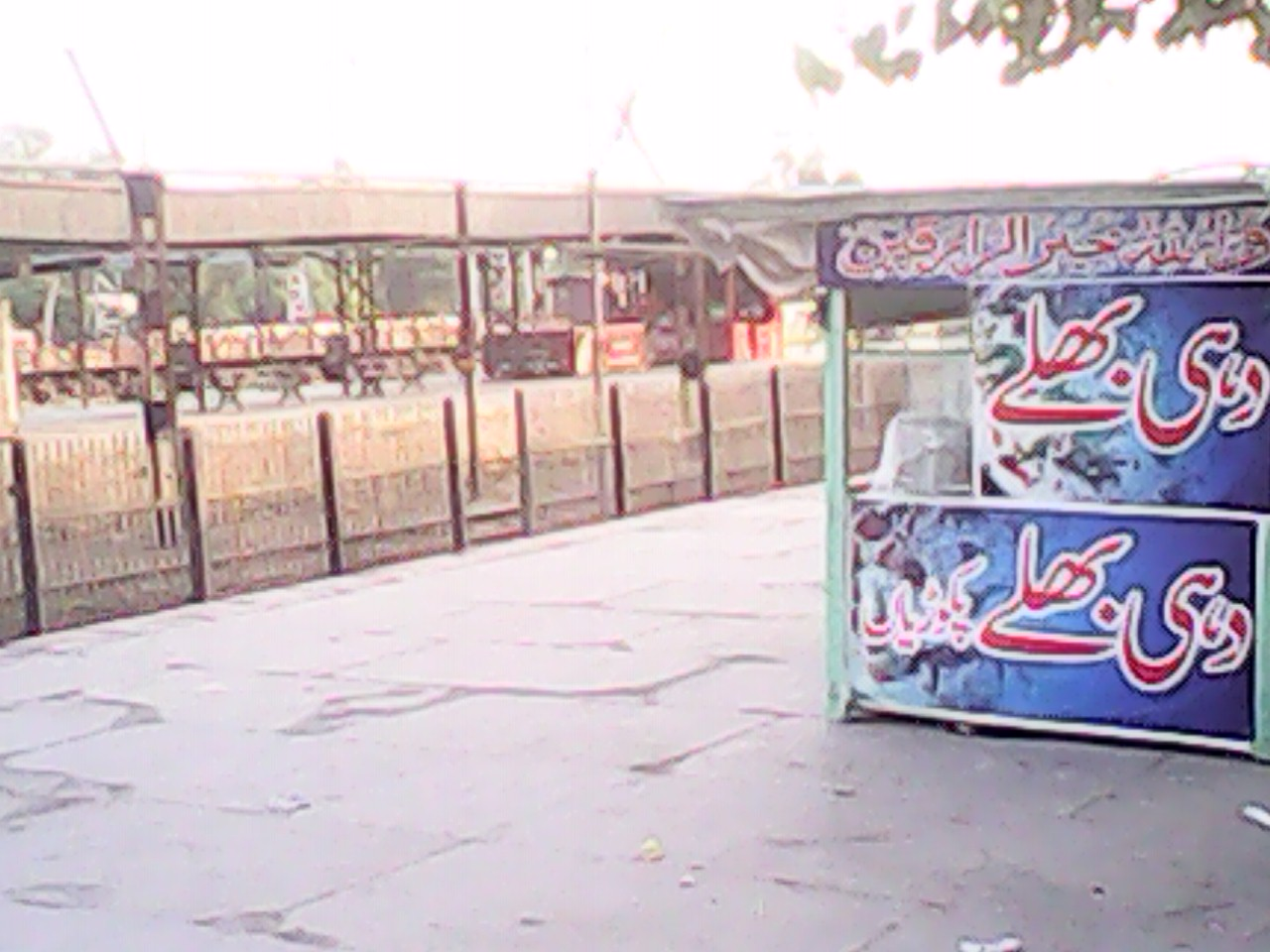 Faisalabad railway station This is a photo of a monument in Pakistan identified as the PB-U-10